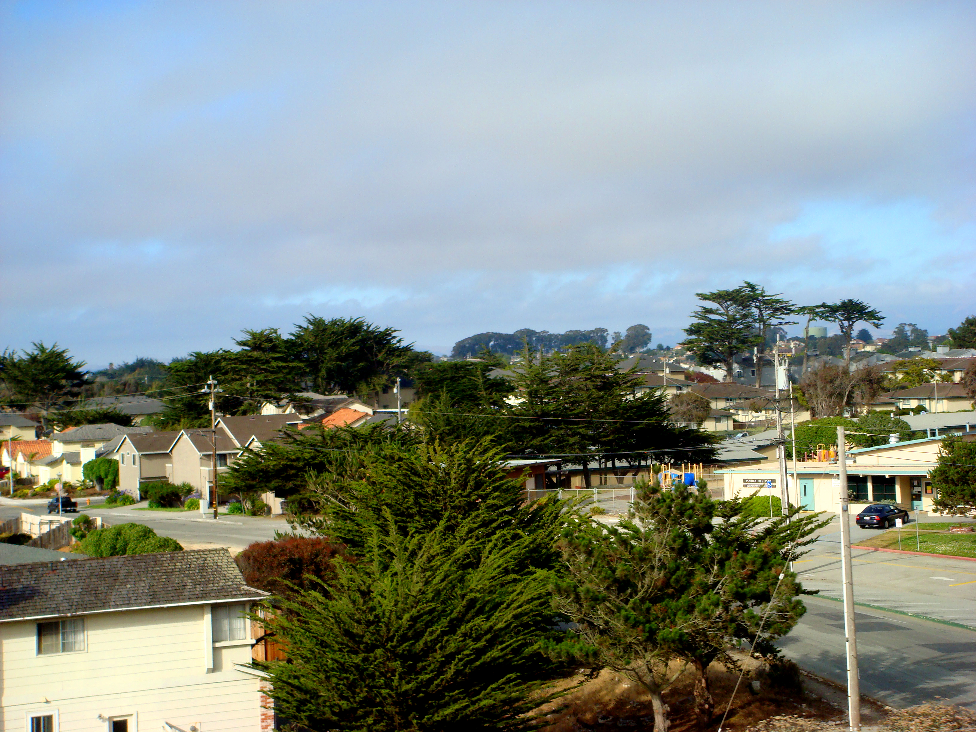 Homes in Marina